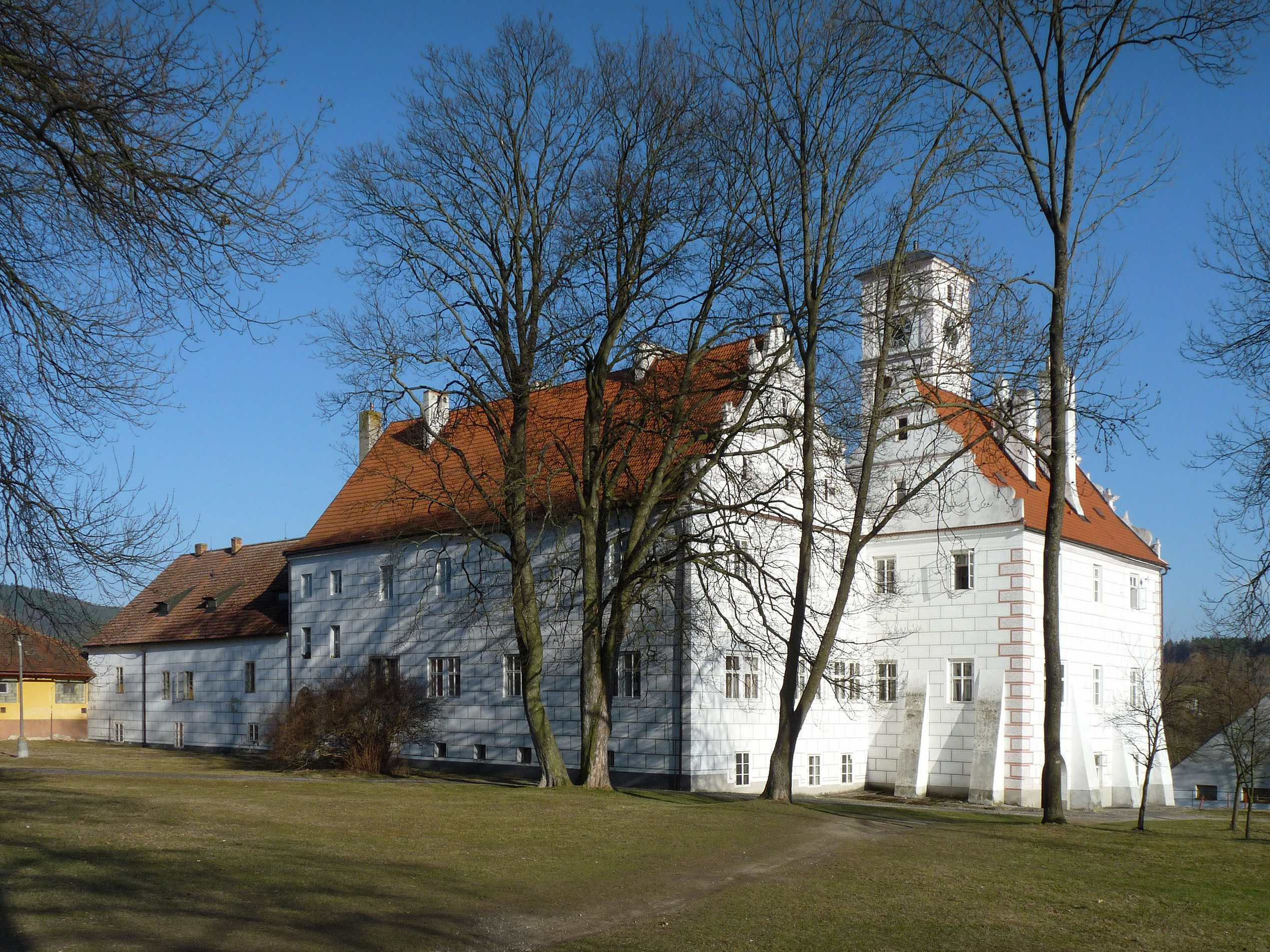 Žichovice Castle, Klatovy District, Plzeň Region, Czech Republic